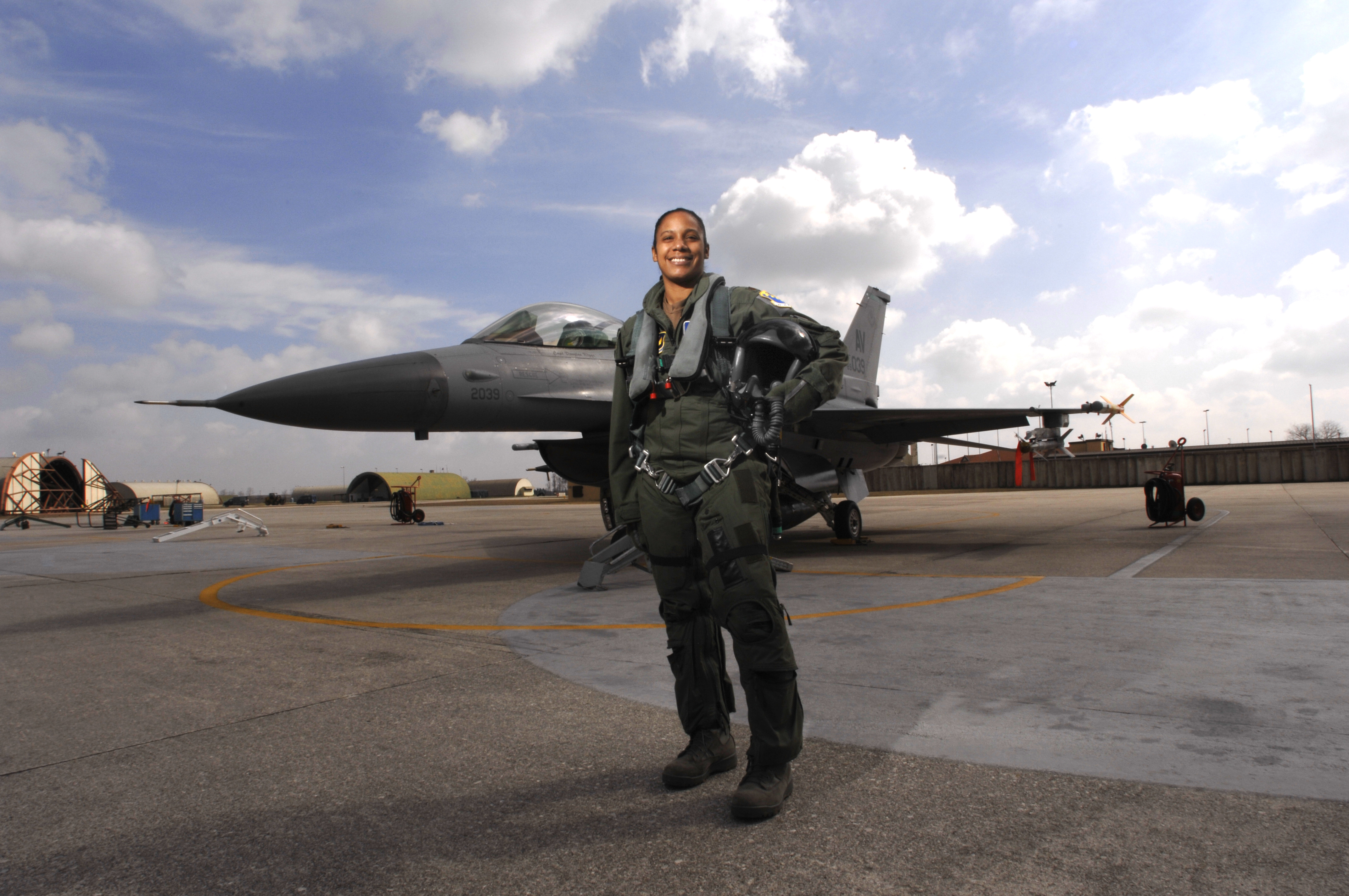 Maj. Shawna R. Kimbrell, 555th Fighter Squadron, poses for an environmental photo for Women's History Month article March 17, 2008. Maj. Kimbrell is the first African American female fighter pilot in the Air Force.